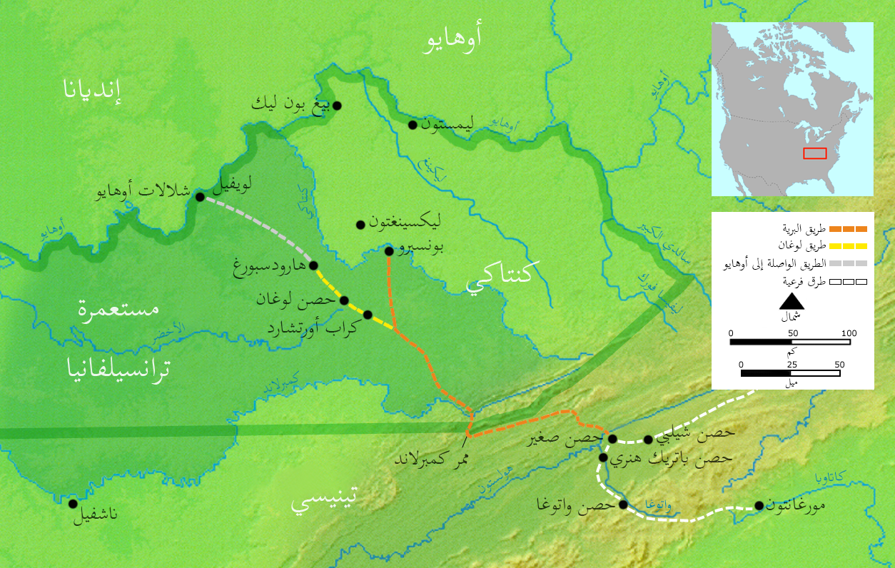 Course of the Wilderness Road in Kentucky.